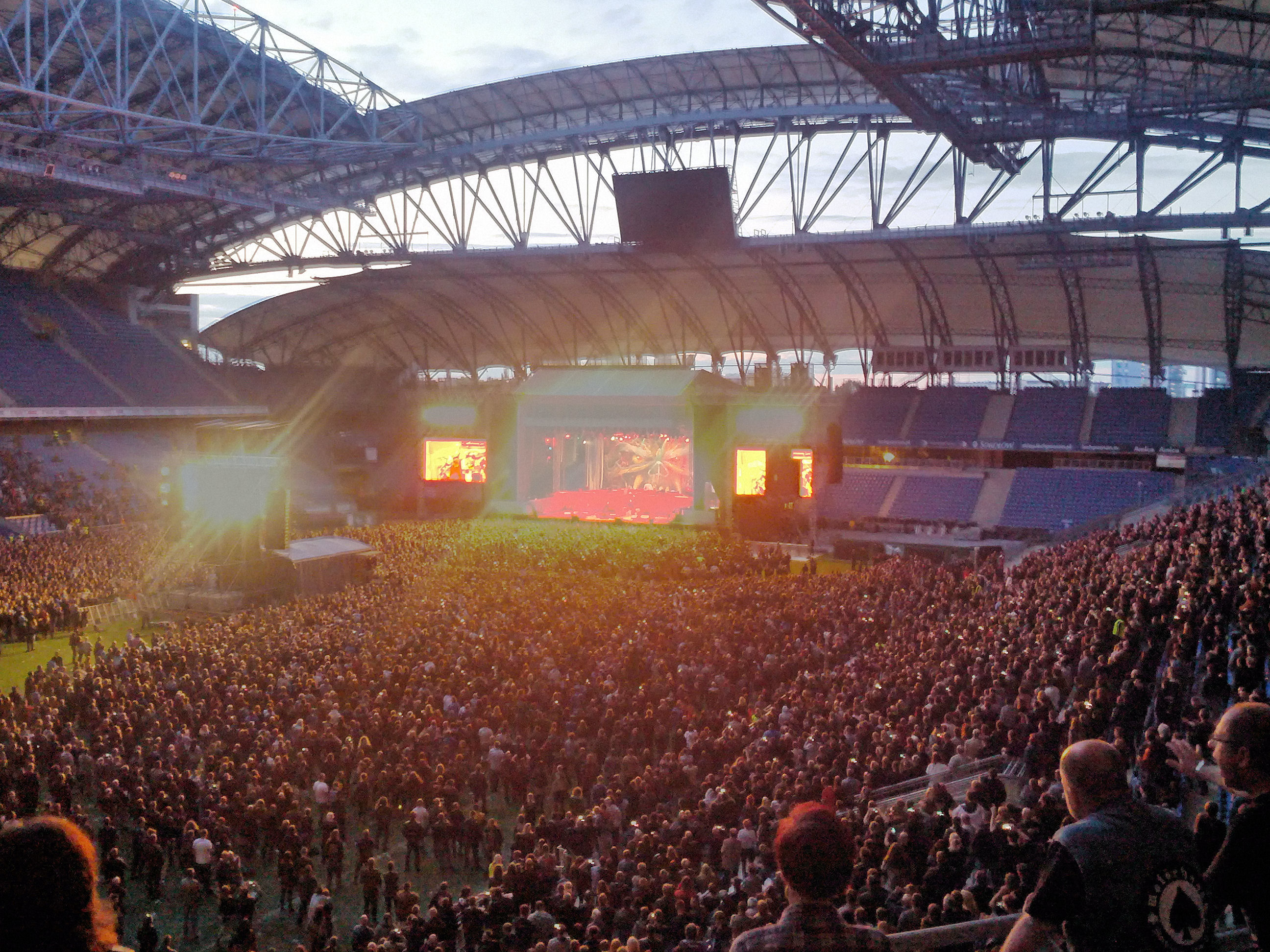 Concert of Iron Maiden, Municipal Stadium, Poznań, Polska